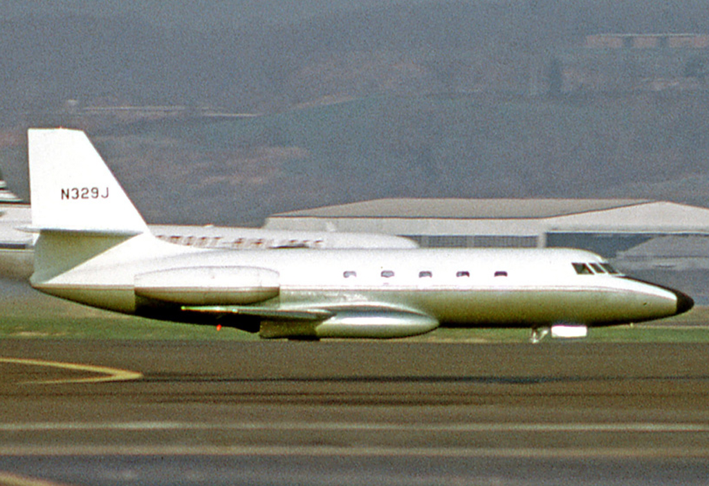 Lockheed L-329 prototype N329J at Washington DCA airport in 1972